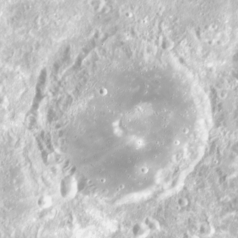 Hubble crater, on the moon. Taken by Apollo 16 panoramic camera during Trans-Earth Injection. Brightness and contrast adjusted in GIMP.